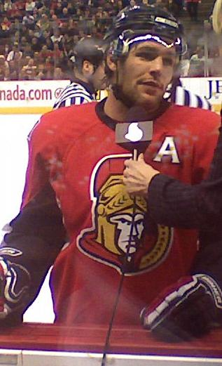 Mike Fisher. Taken at Scotiabank Place, Ottawa, Ontario, Canada, at an Ottawa Senators vs. Boston Bruins game.